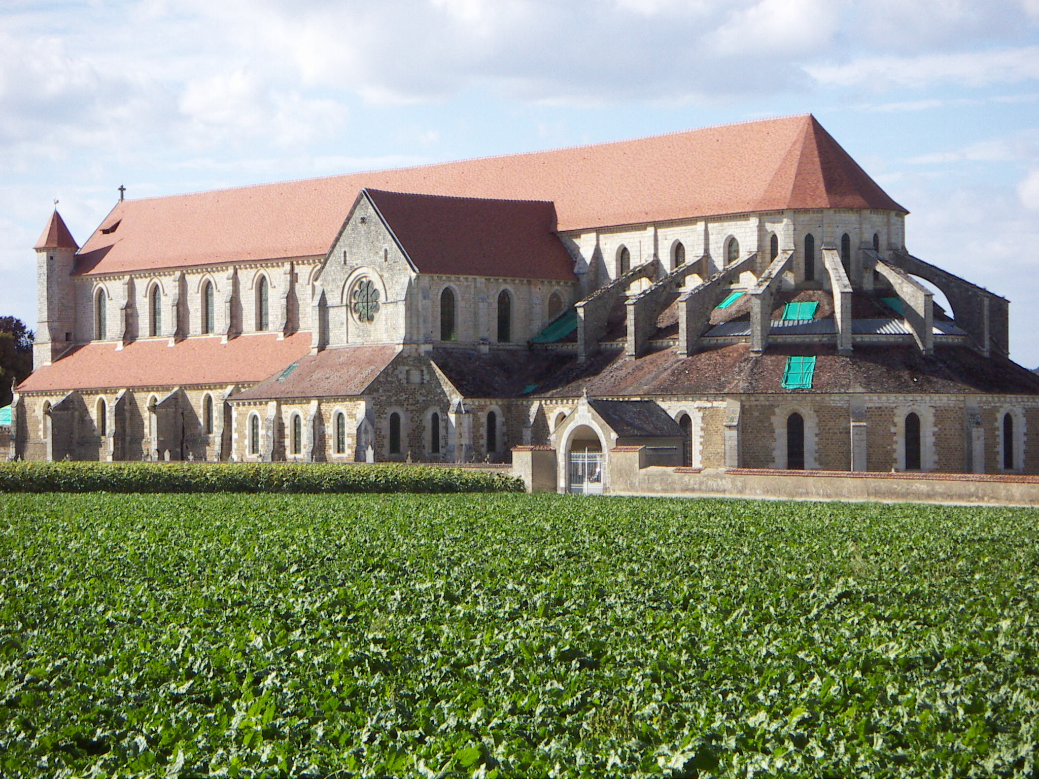 Pontigny Abbey